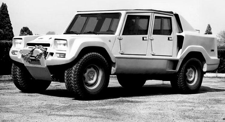 Lamborghini LM001 prototype in 1981. First shown at Geneva carshow in 1981.